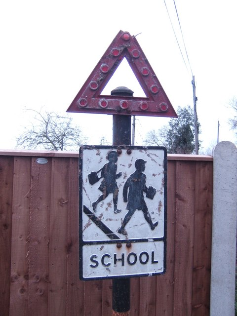 Redundant sign, near to Upton Bishop, Herefordshire, Great Britain. The school has now become a house - see SO6427 : Upton Bishop primary school . How many of us of a certain generation remember this sign as a feature of our walk to school back in the day?